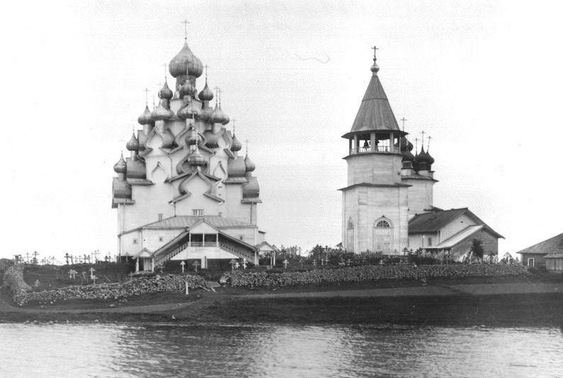 Kizhi Pogost, 1916